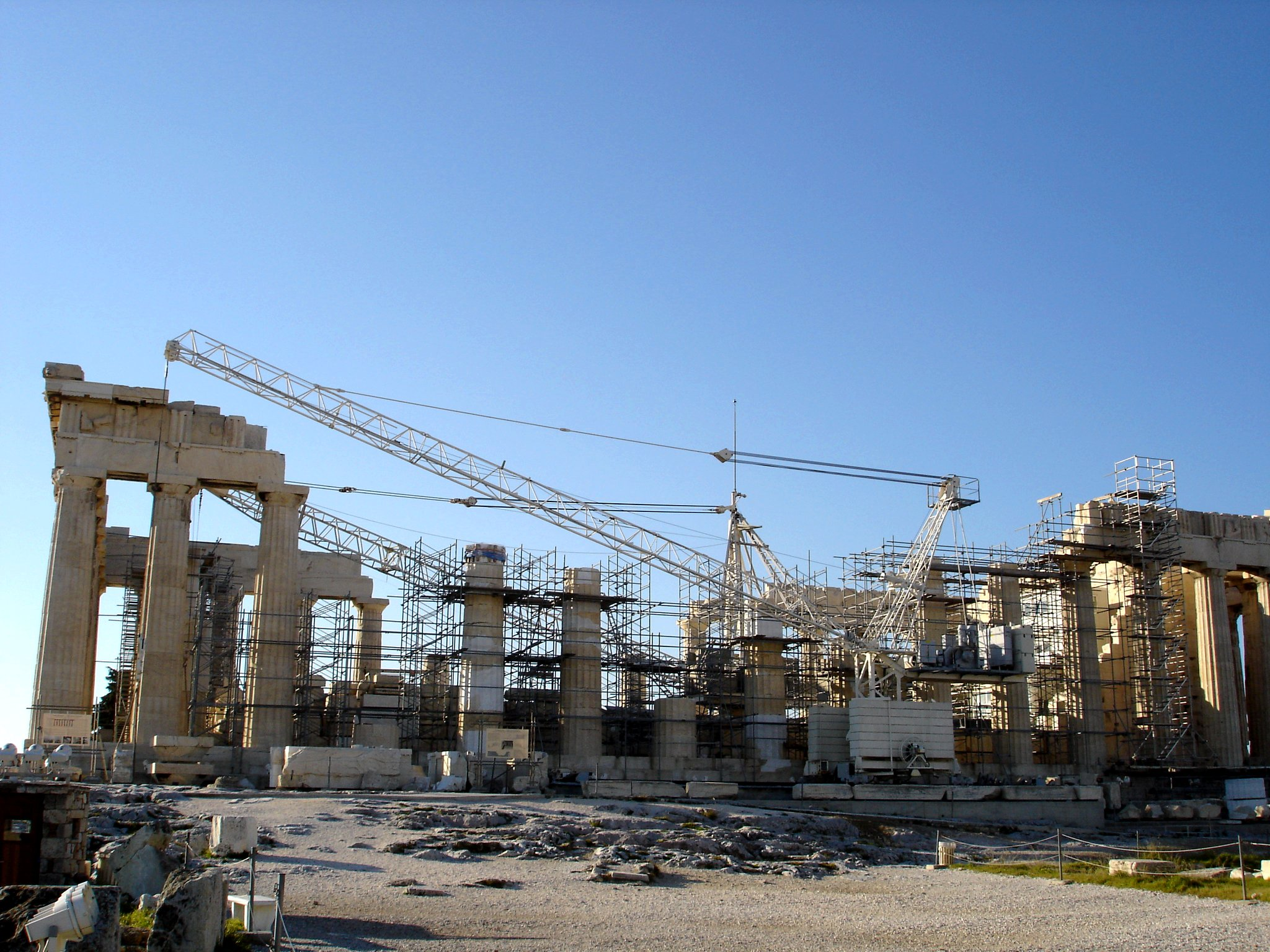 Restoration of the Parthenon, side view